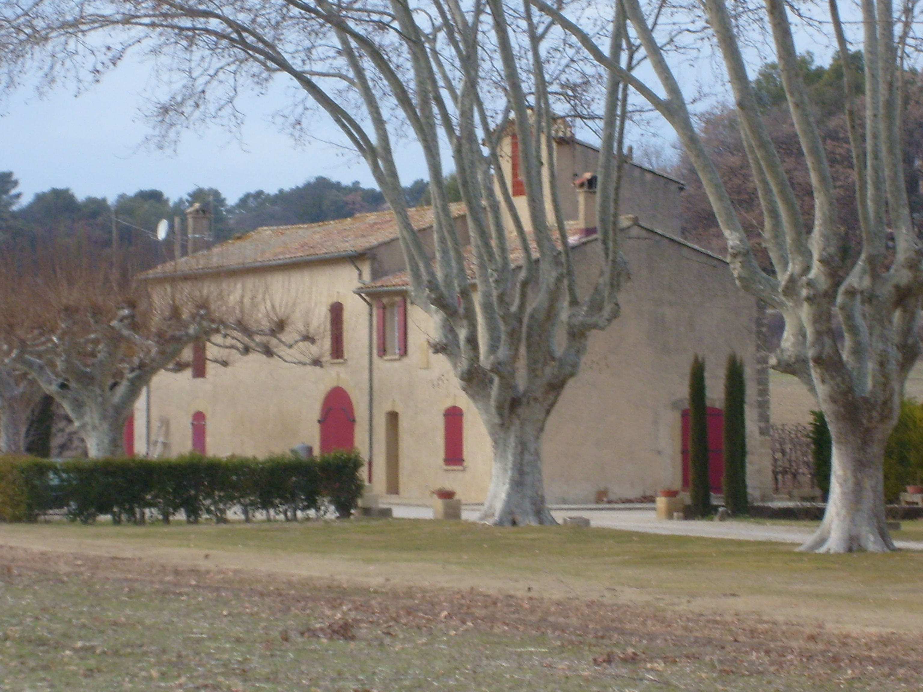 A Mas, or Provencal farmhouse, near Rognes in Provence, France